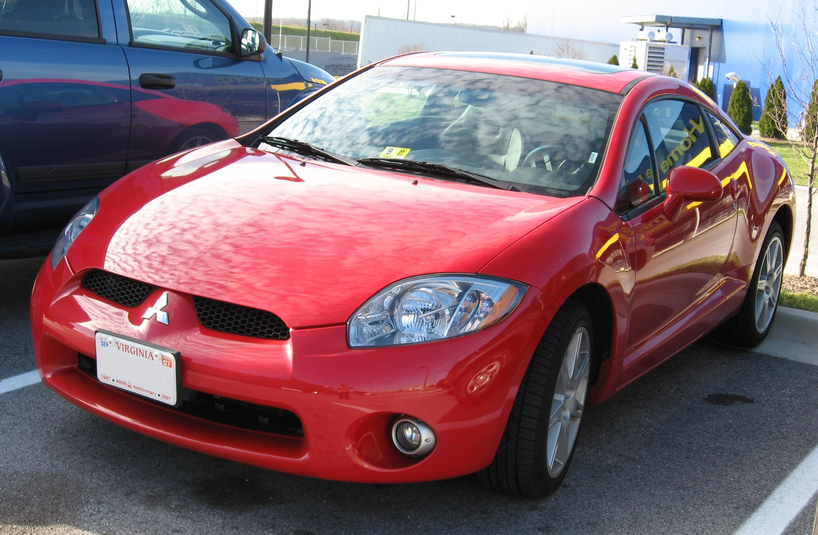 2006 Mitsubishi Eclipse photographed in USA.